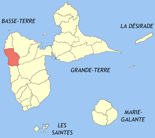 Location of Pointe-Noire within Guadeloupe